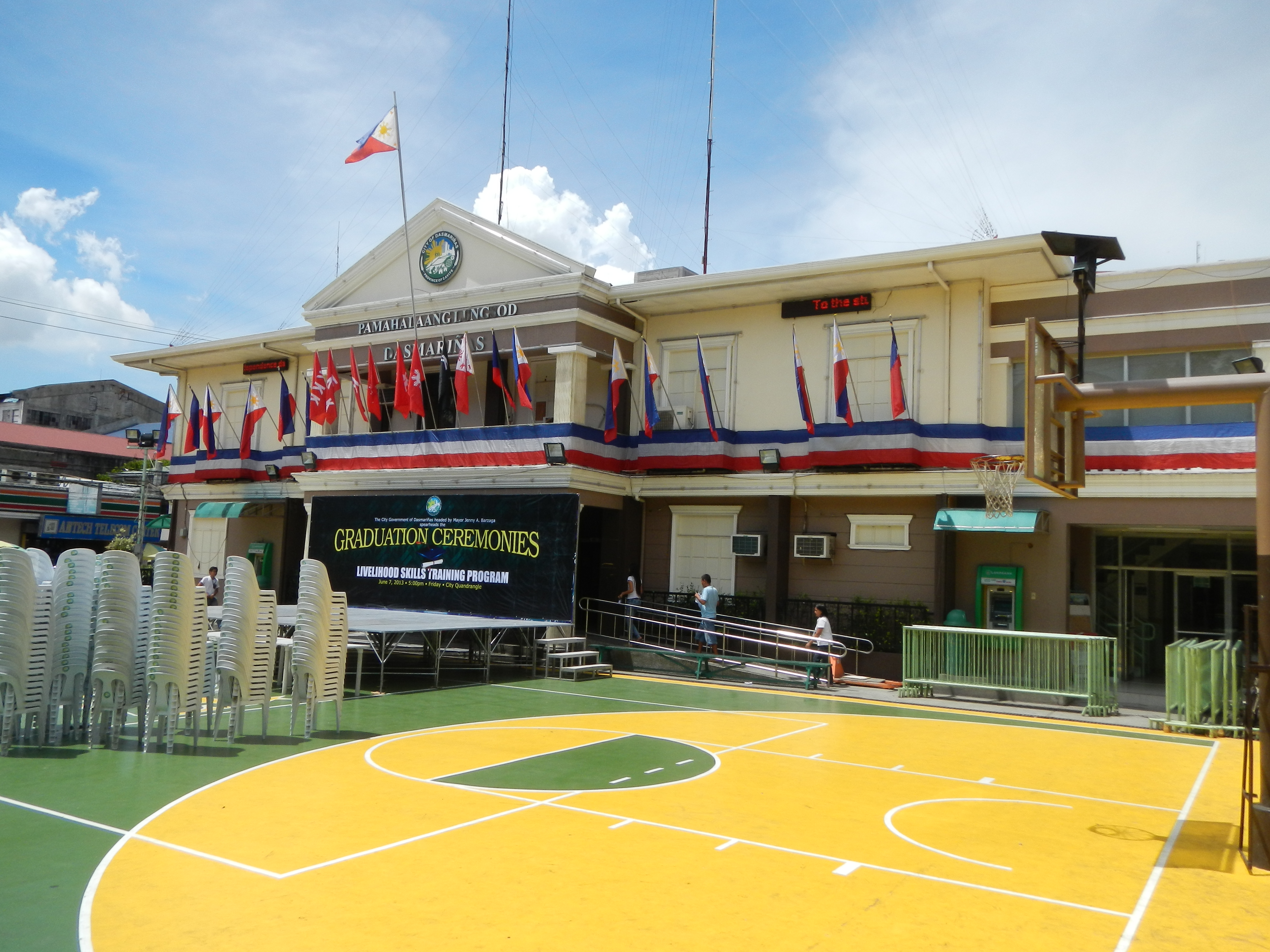 Dasmariñas City Hall [1] in downtown - Coordinates: 14°19'35"N 120°56'10"E - Dasmariñas[2] Website Dasmariñas, officially the City of Dasmariñas (often shortened to Dasma; Filipino: Lungsod ng Dasmariñas) is the largest city, both in terms of area and population in the province of Cavite, Philippines. Website ---------[N.B. June 7, 1st Friday, 2013 Photography of - From Bulacan at 9:05 a.m., I took photo of Dasmariñas [3] City at 12:49 pm, the Aguinaldo Highway, then, at 3:35 pm, I took photo of Carmona, Cavite [4] - I finished San Lazaro Carmona Race Track, Carmona Welcome Arch and Binan Laguna Welcome Arch and Araneta Coliseum Quezon City at 8:31 p.m. and started uploading via slow internet next day June 8, 2013 at 6:59 pm - I hereby certify that these rarest, raw, original and unedited photos are exclusive for Commons and Wikipedia never uploaded in any Internet or any site, and for the public domain without any condition.]